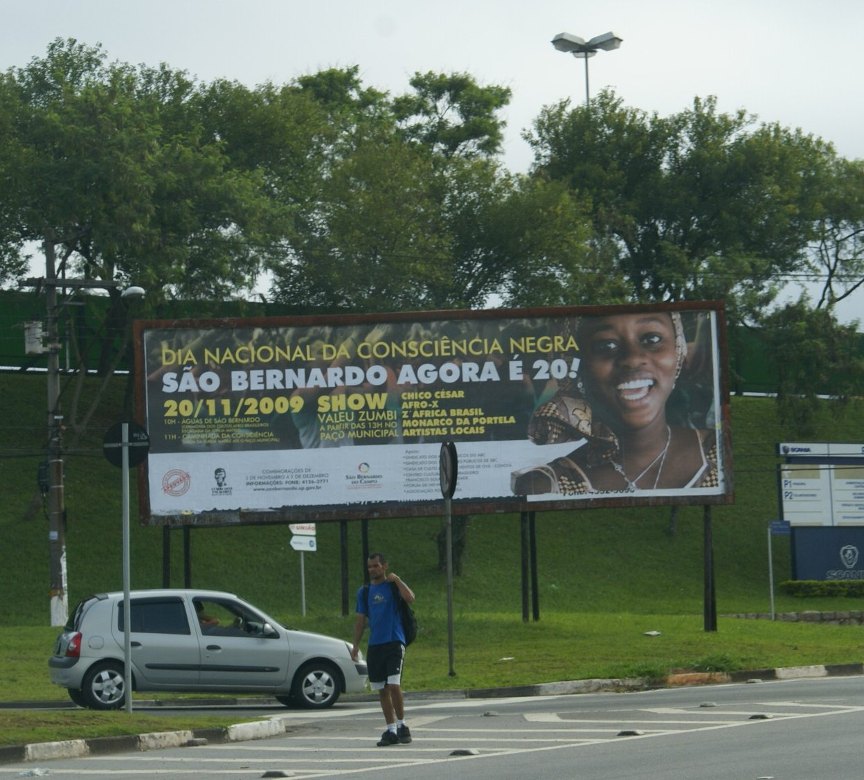 Outdoor in São Bernardo do Campo City, Brazil.